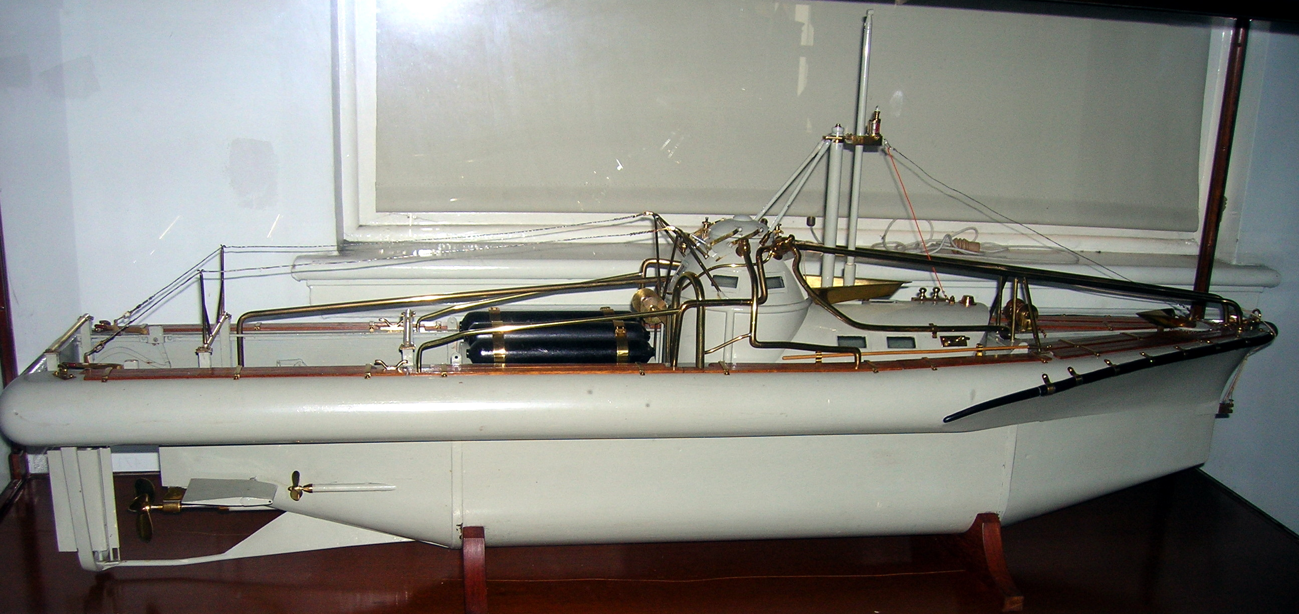 Model of a Welfreighter mark III type Semi-submersible, about 1944.